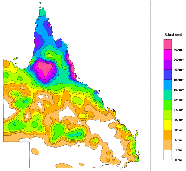 The one-week accumulated rainfall total in Queensland for the seven days to 30 March 2018. Severe Tropical Cyclone Nora made landfall on 25 March, and delivered very heavy rainfall to large parts of Far North Queensland over the following days. Image has been cropped from the original.